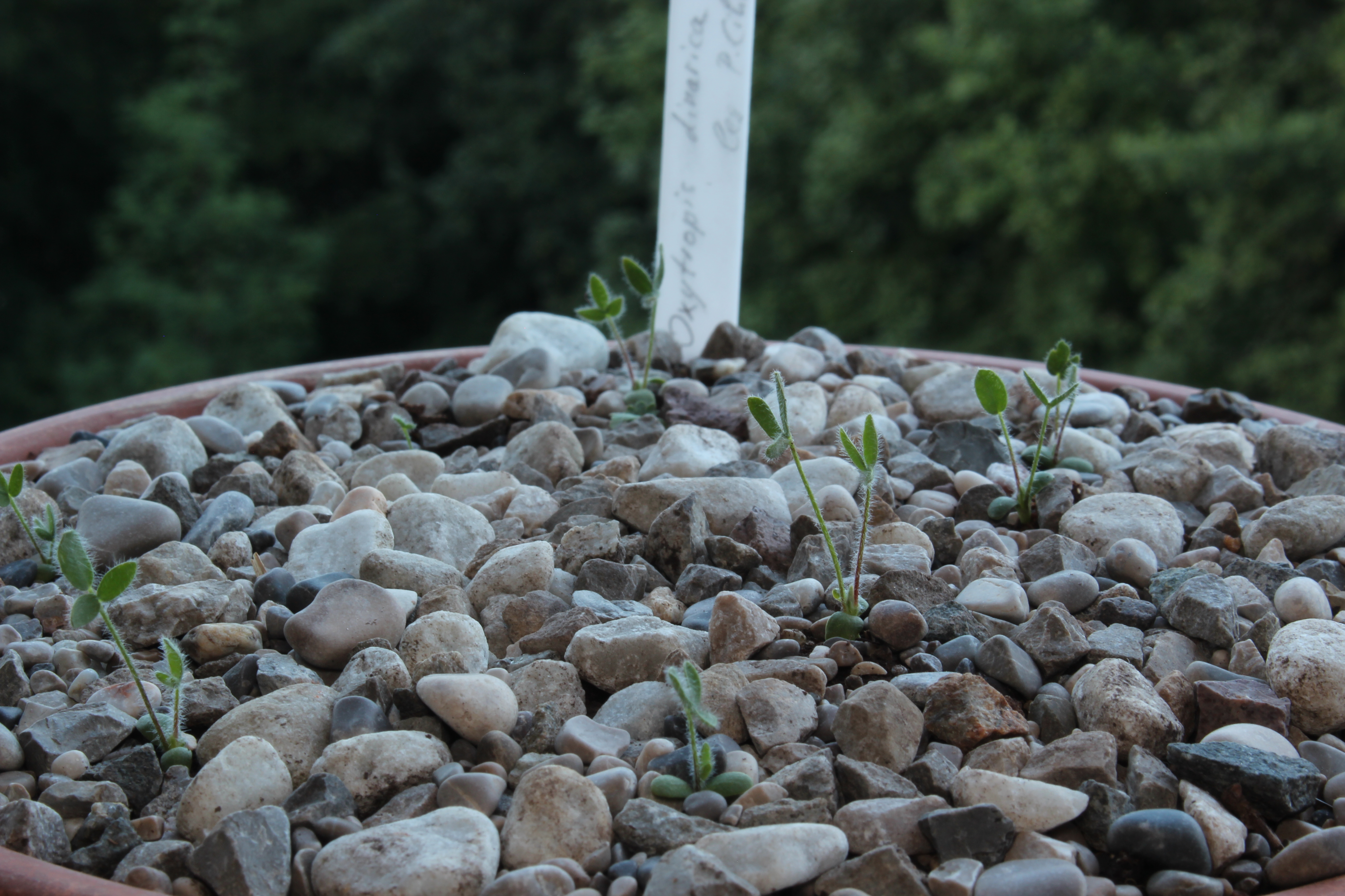 Oxytropis dinarica subsp. dinarica var. macrocarpa leg P.Cikovac Bijela gora Seedlings 2019